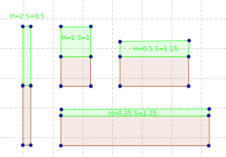 Two sequences of shapes illustrating the dissimilarity between Hausdorff distance and Symmetric difference. While the Hausdorff distance (H) between the shapes "Red" and "Red U Green" becomes smaller, the symmetric difference (S) between them becomes larger, and vice versa.